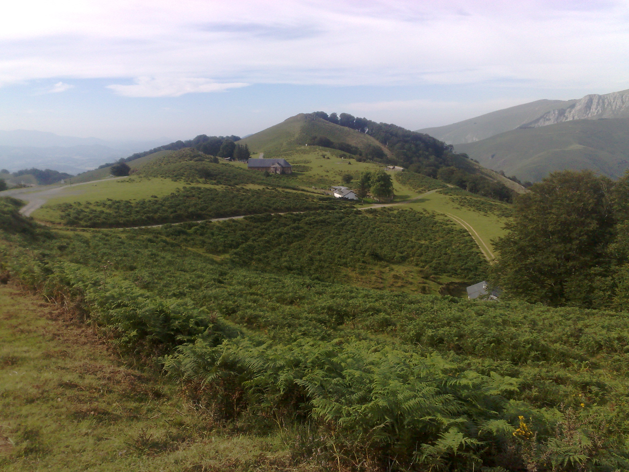 Salbatore (fr. Saint-Sauveur) chapel and surrounding area coming from Burdinkurutzeta pass, Mendibe-Lekunberri, Lower Navarre, Basque Country.